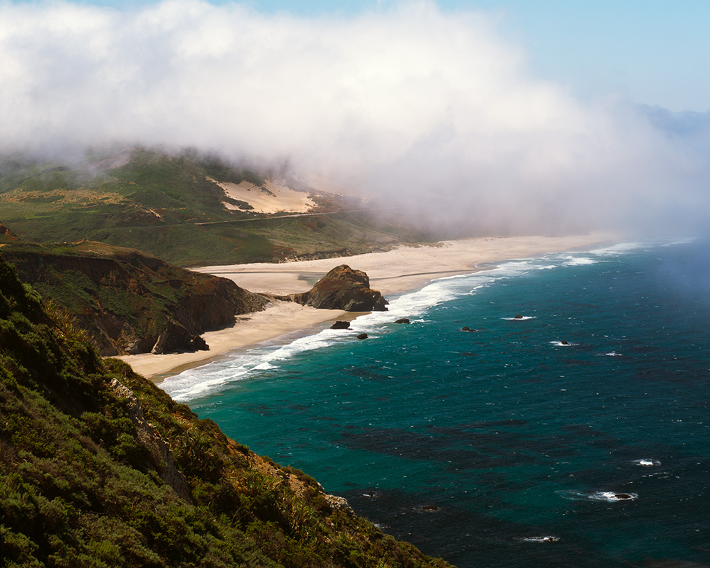 Photographed by Doug Dolde along the Big Sur coastline in California. 2006. Arca Swiss 4x5 view camera, Fujichrome Provia 100F transparency film. More images from this location at